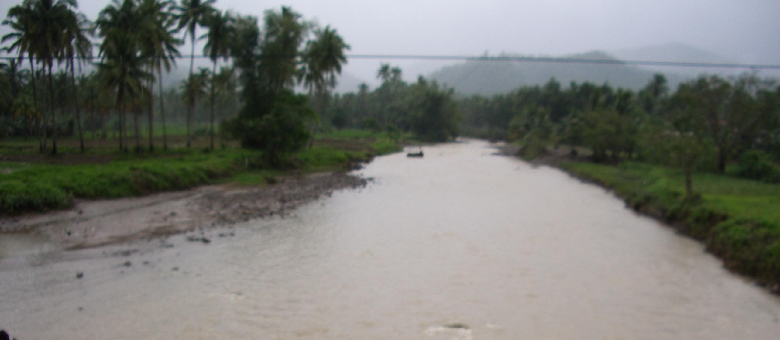 Magkasa River after a downpour.